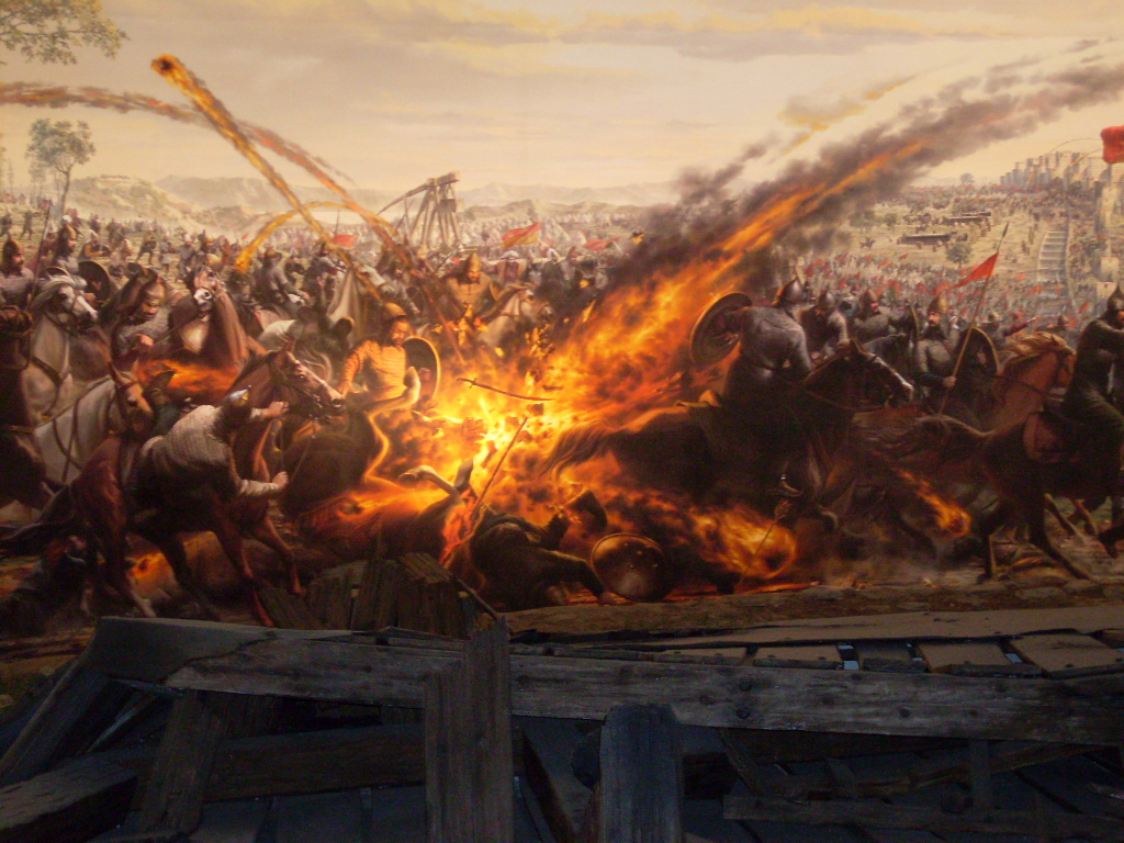 Museum of Panorama 1453